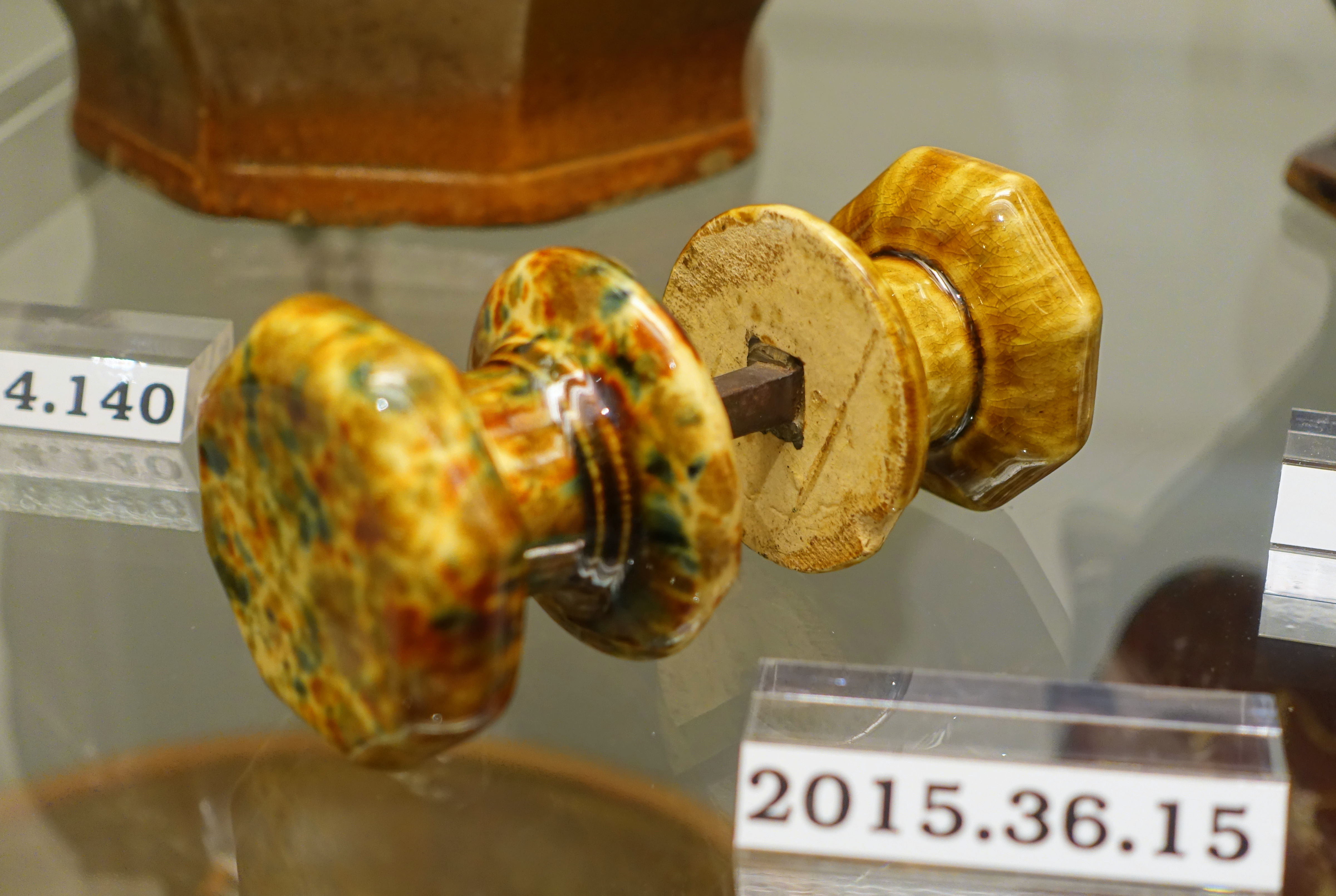 Exhibit in the Flynt Center of Early New England Life, Historic Deerfield - Deerfield, Massachusetts, USA.